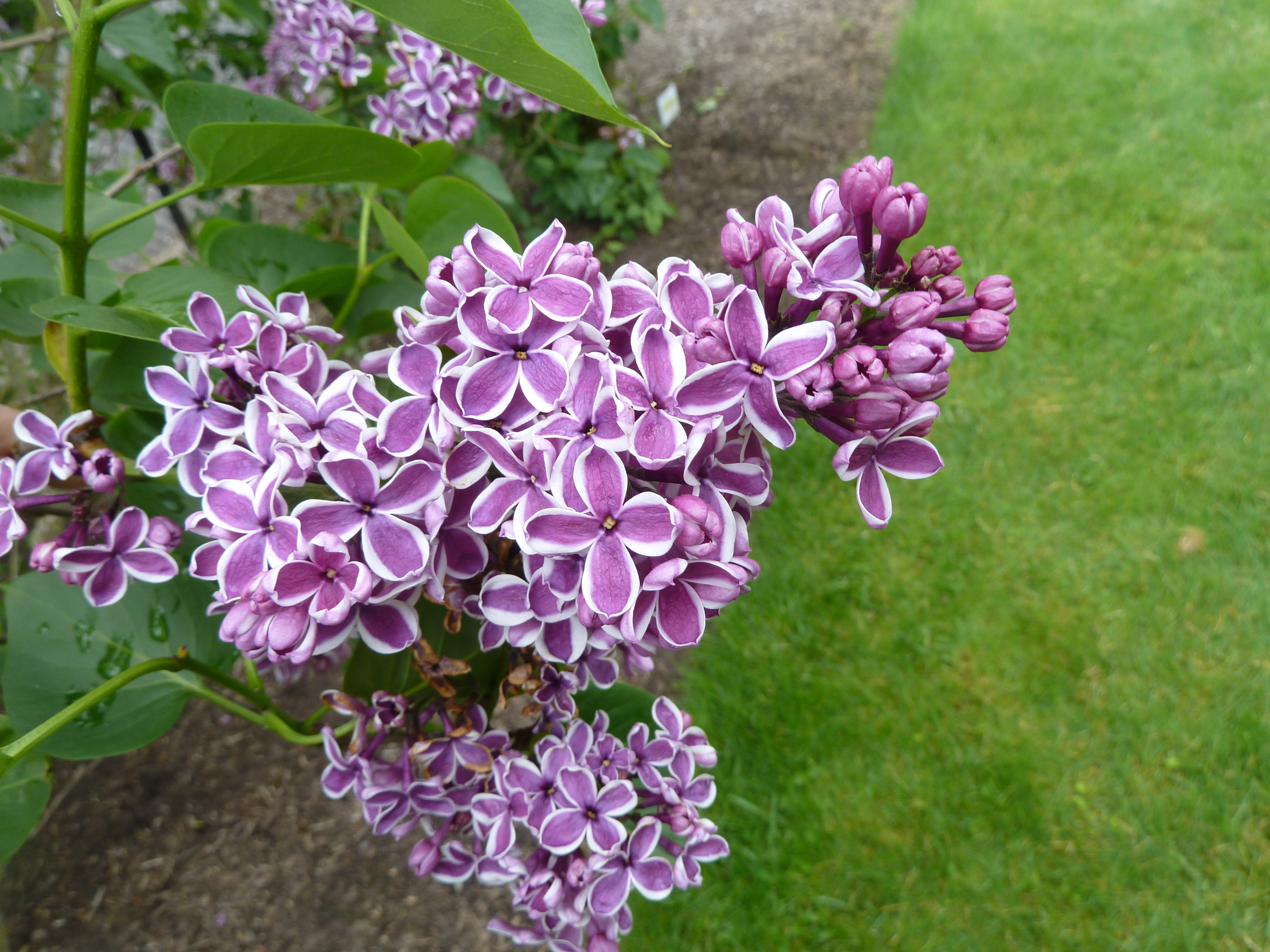 Lilac 'Sensation' at the at the Hulda Klager Lilac Garden in Woodland, WA.